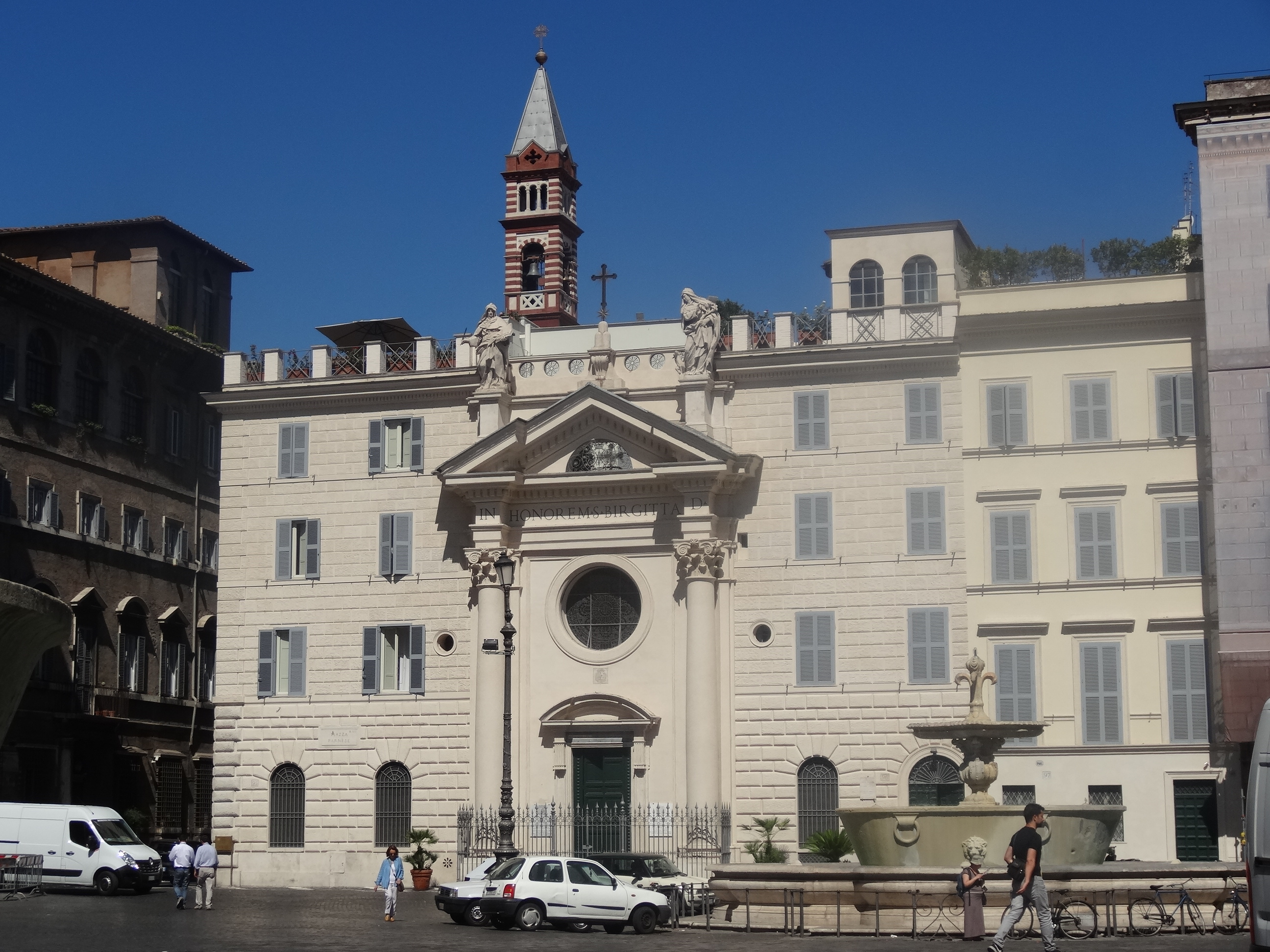 Santa Brigida (Rome)